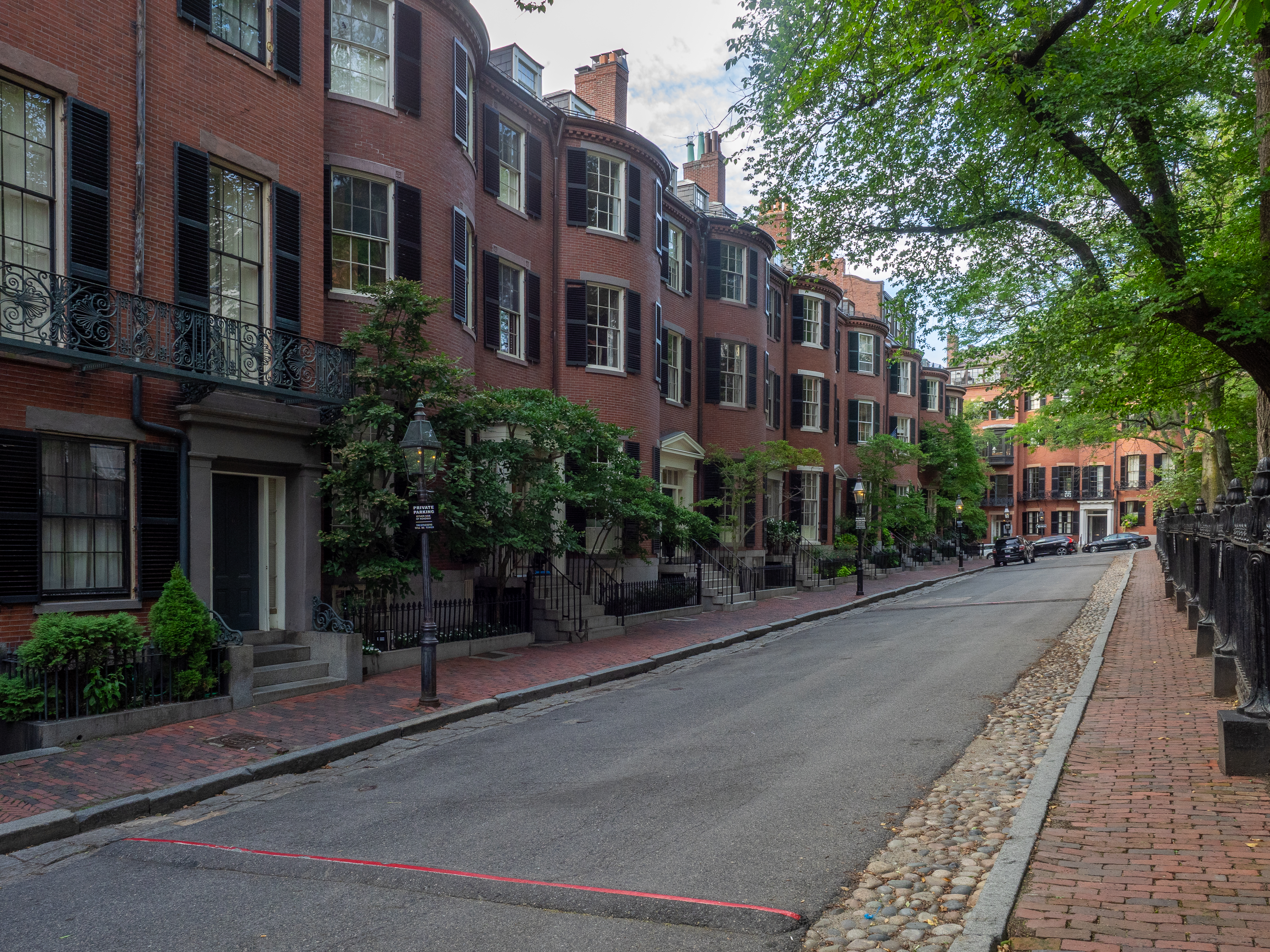 Boston, MA